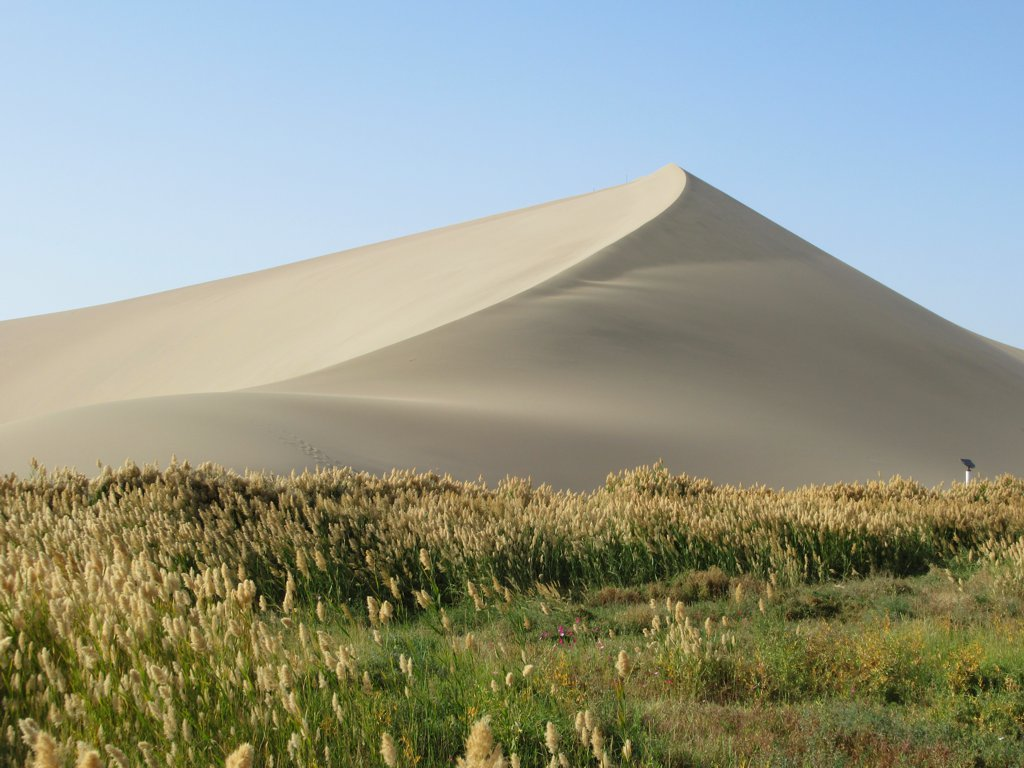 This pyramid-shaped dune is just south of Dunhuang, Gansu, China, at the Mingsha Sand Dunes.